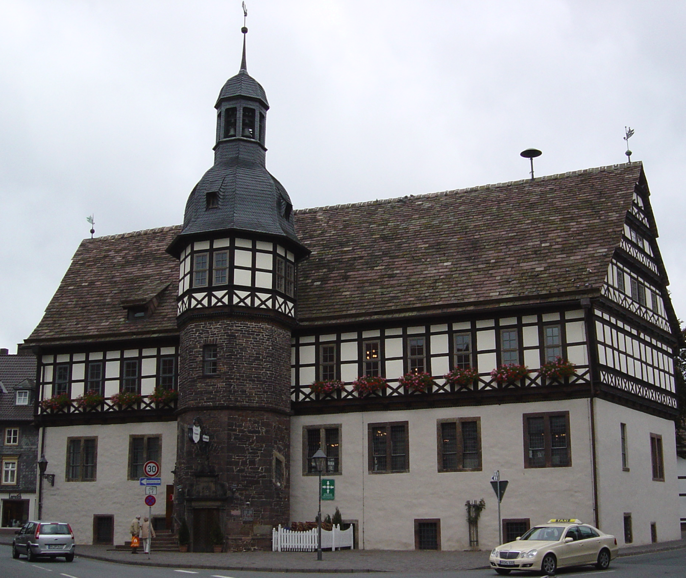 historic town hall Höxter (half-timbered, 13th Century, Renaissance), Germany)